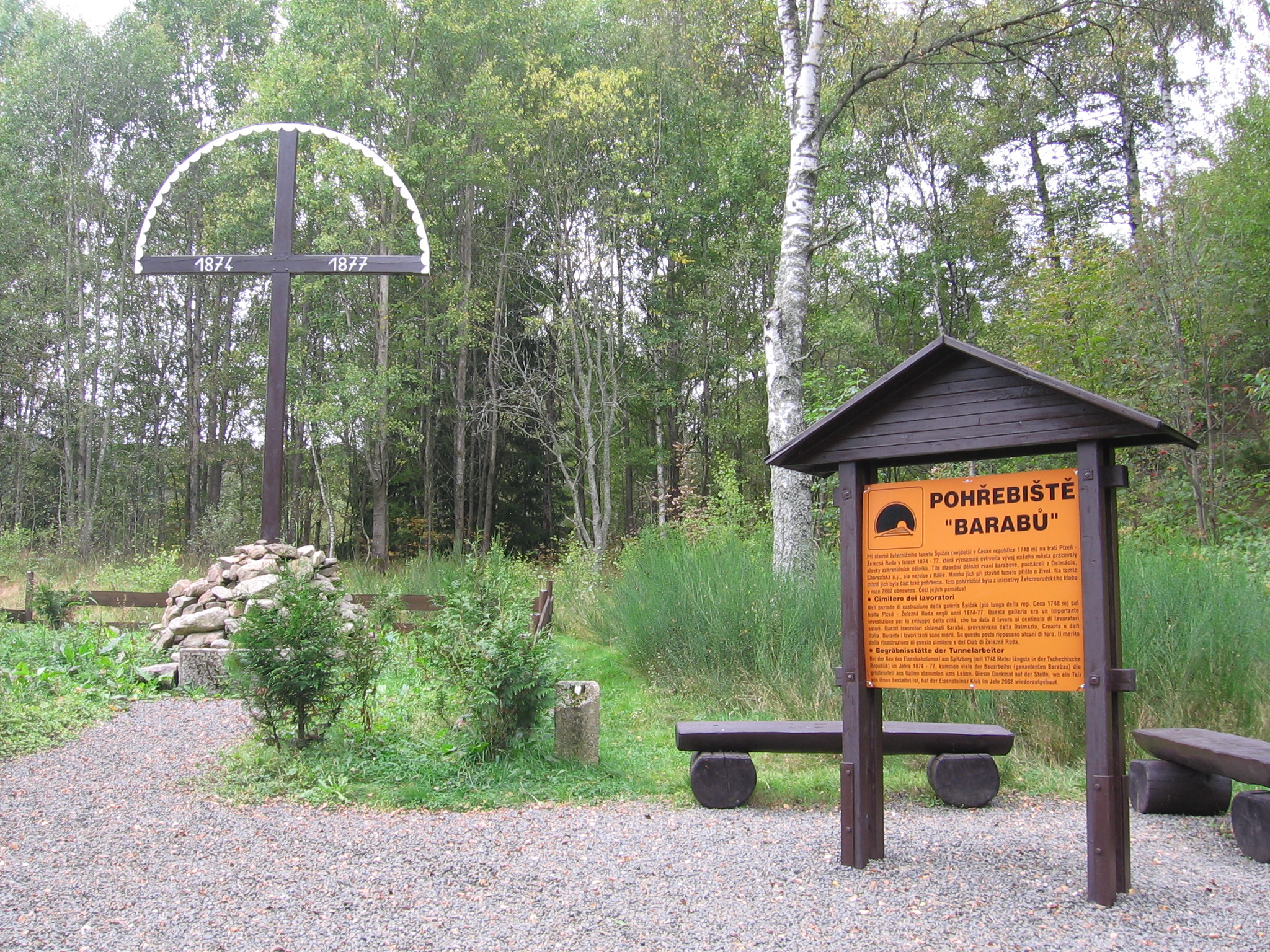 Burial place of the tunnel workers who died during the construction of railway tunnel Špičák on the track Plzeň - Železná Ruda.